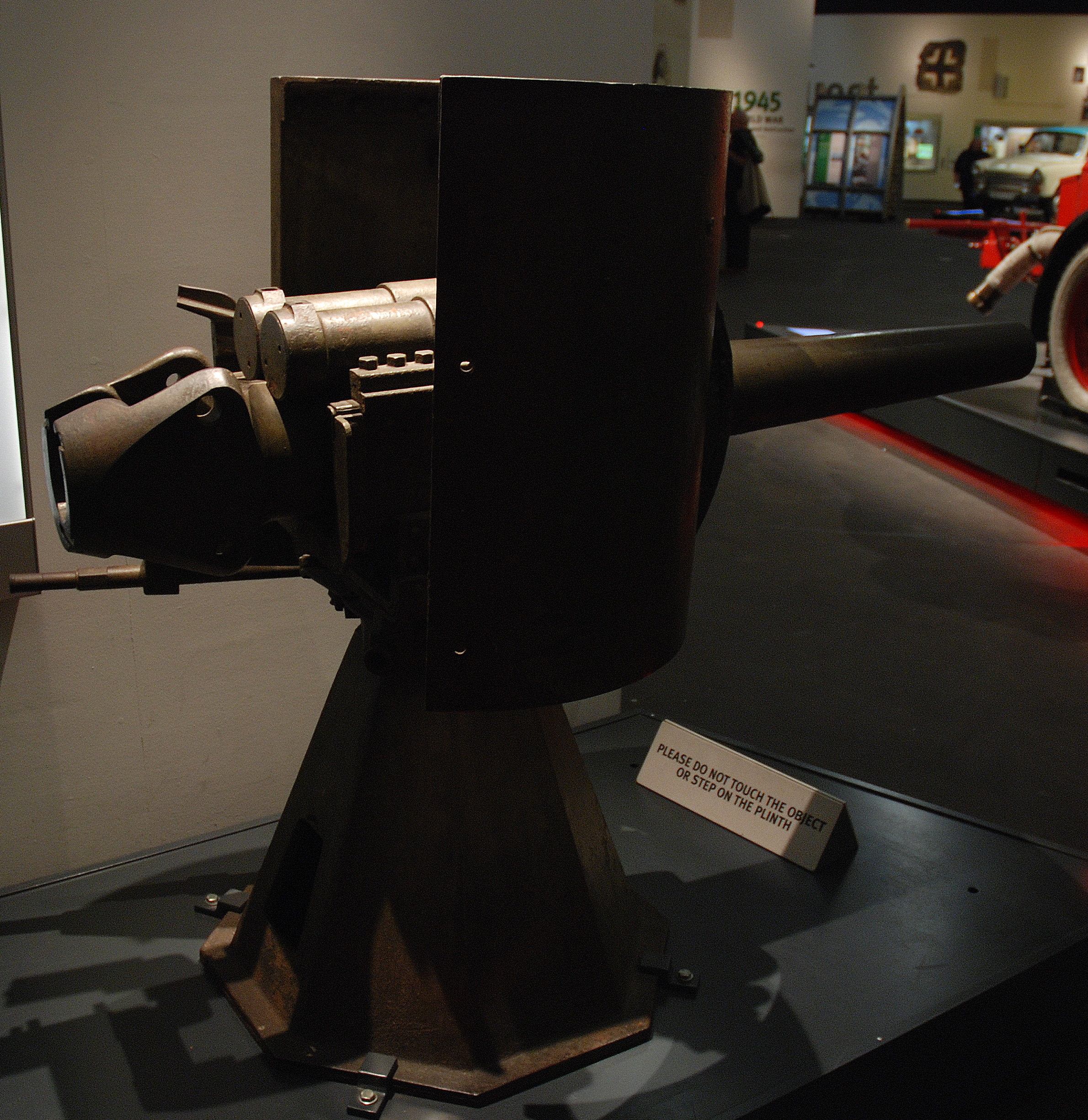 Nordenfelt 57-mm gun from German A7V tank from World War I. At Imperial War Museum North, Manchester, England.